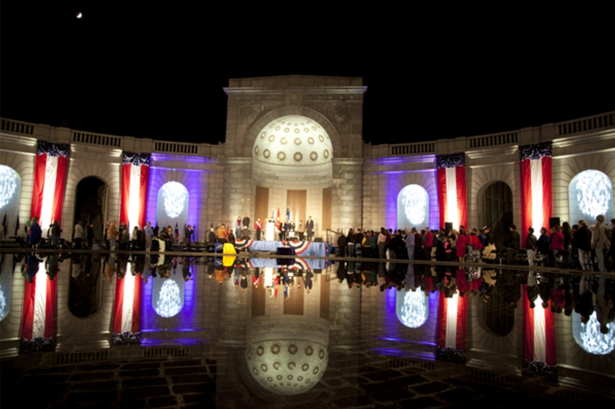 15th anniversary celebration of the dedication ceremony for the Women in Military Service for America Memorial in front of Arlington National Cemetery in Arlington County, Virginia, in the United States, on October 20, 2012.